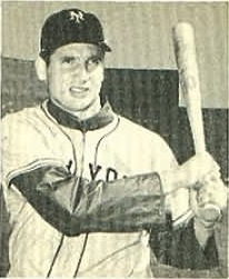 New York Giants outfielder Bobby Thomson.